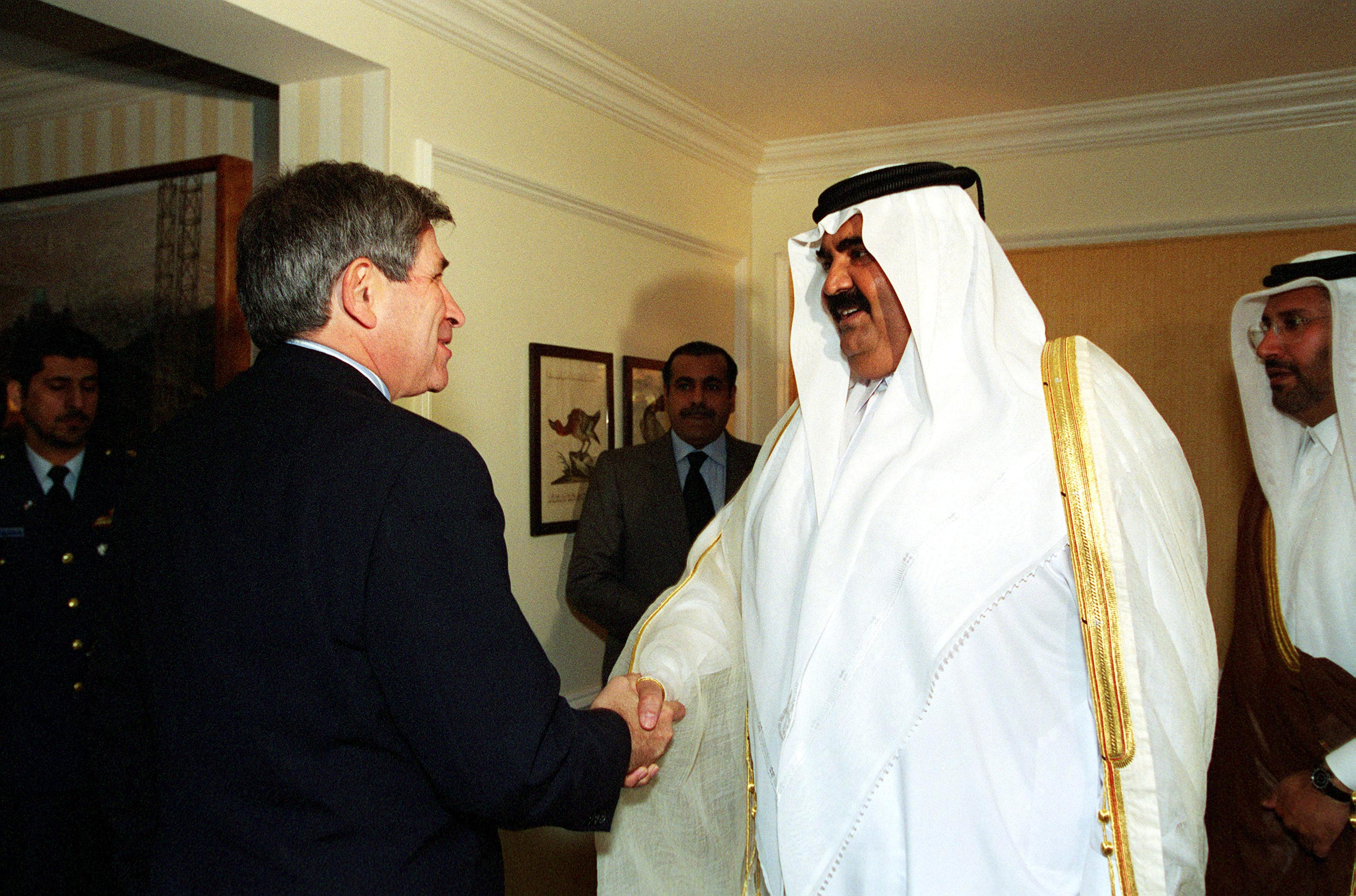 Deputy Secretary of Defense Paul Wolfowitz (left) meets with Amir Shaikh Hamad bin Khalifa Al-Thani, of Qatar in Washington on Oct. 5, 2001. The Amir presented a $1 million check to Wolfowitz to be used to assist families of victims of the September 11 terrorist attack on the Pentagon.